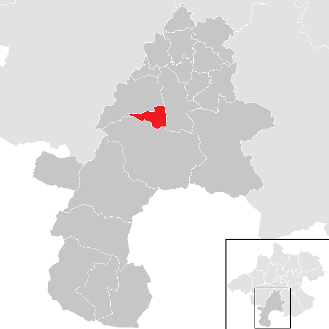 district Gmunden